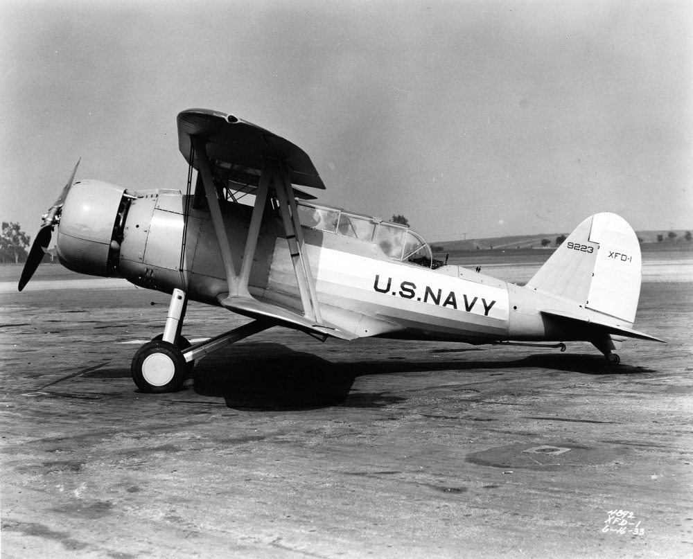 Douglas XFD-1